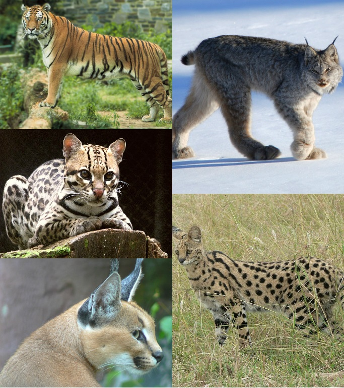 Felidae of differents genera (smaller montage in a vertical way, easier to use in taxobox)